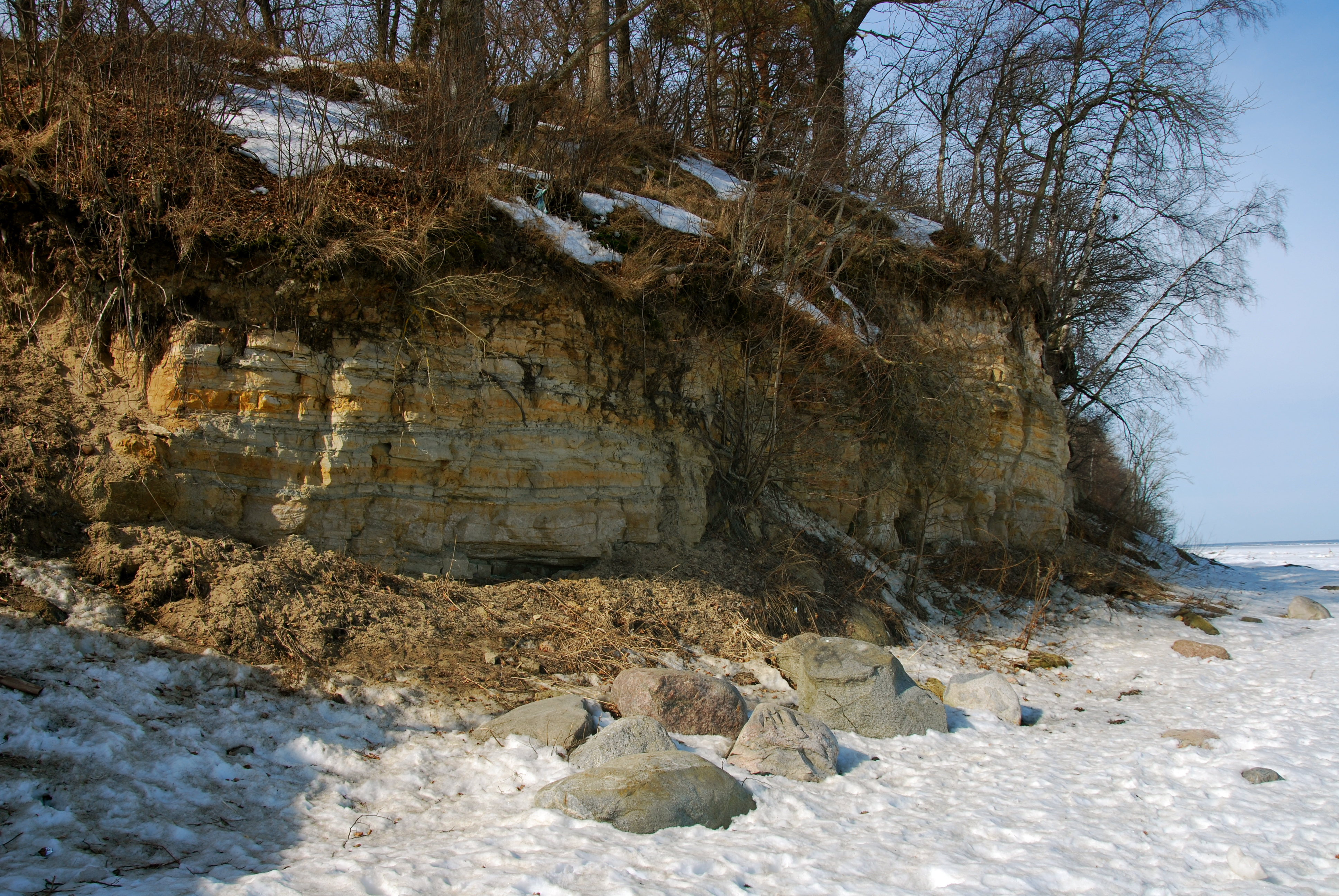 Kakumäe sandstone cliff near Rocca al Mare School in Tallinn, Estonia